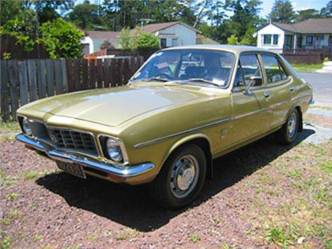 1972–1974 Holden LJ Torana S sedan.